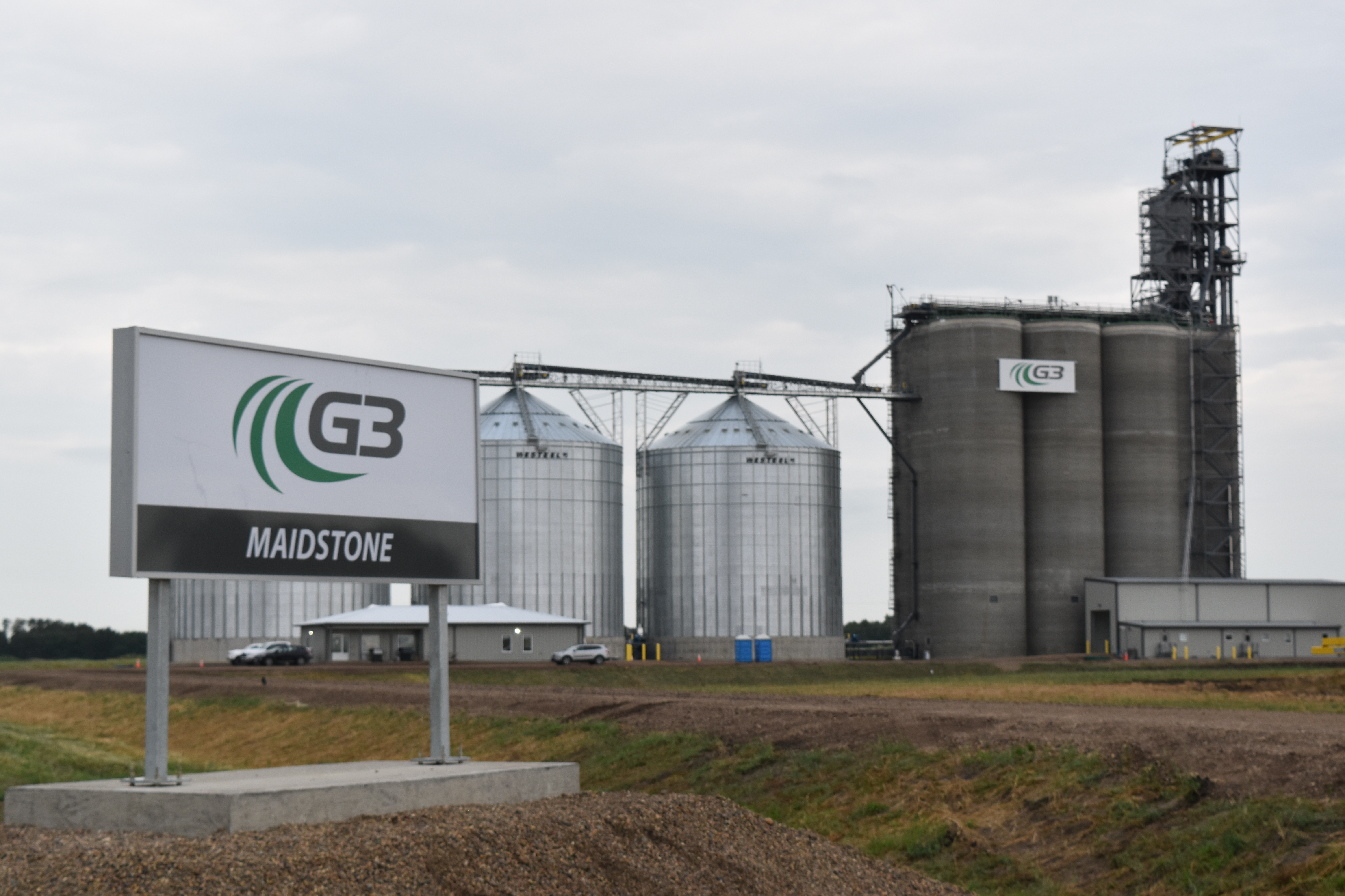 G3 primary grain elevator at Maidstone, Saskatchewan in 2019